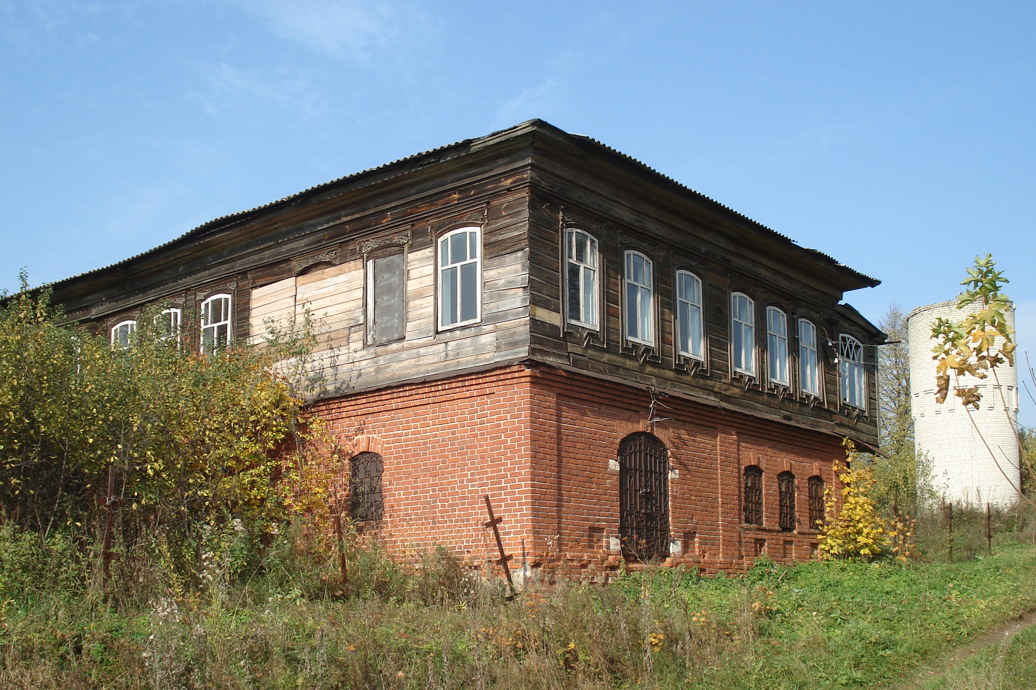 The Village of Sobolevo. Nizhegorodskaya oblast. Russia. The house with a brick ground floor.